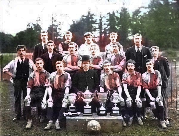 Wrexham Victoria 1901-1902